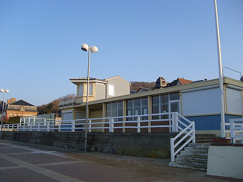 Etablissement des Bains, Houlgate, new year 2009.